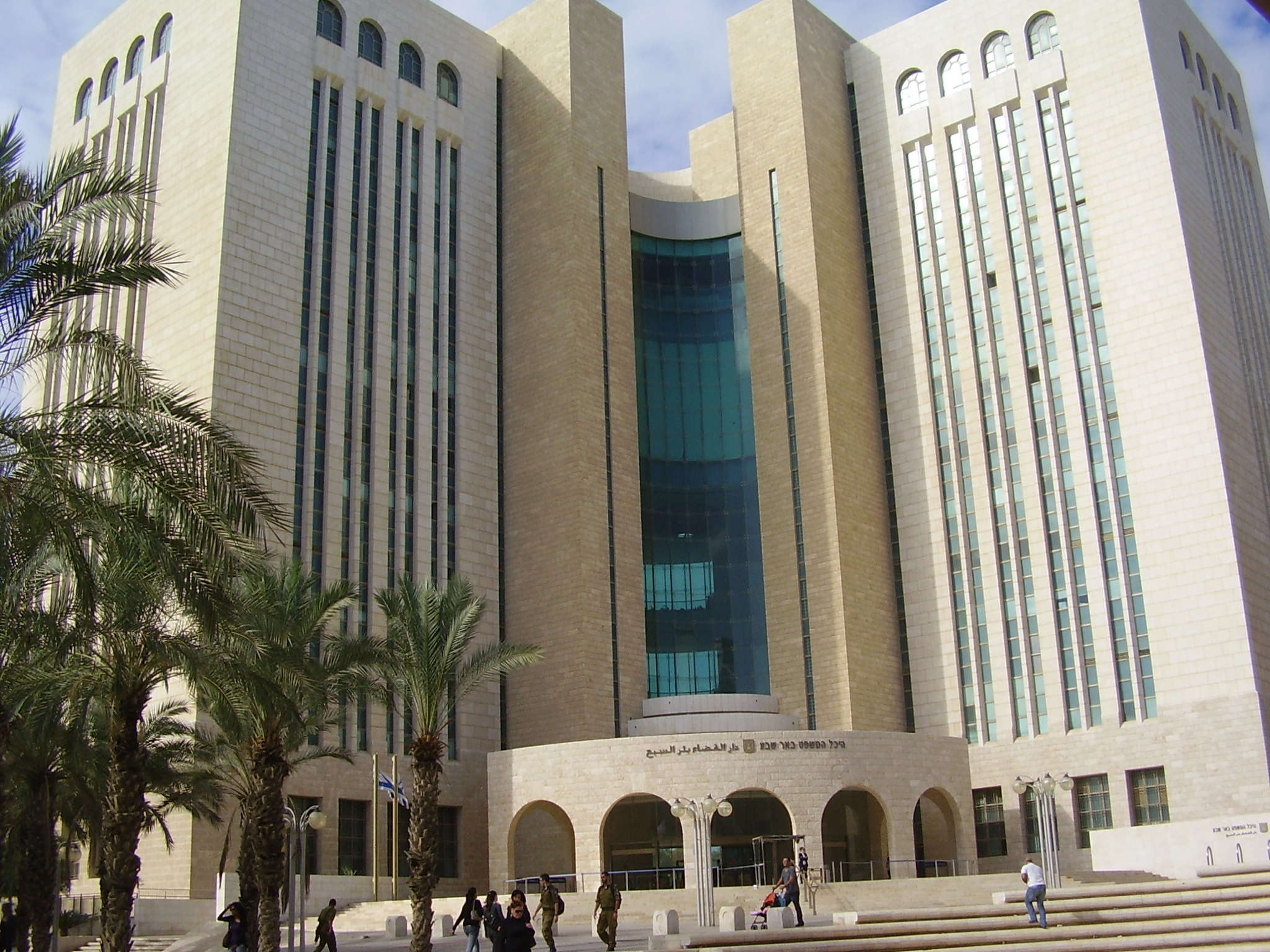 court house in be\'er sheva